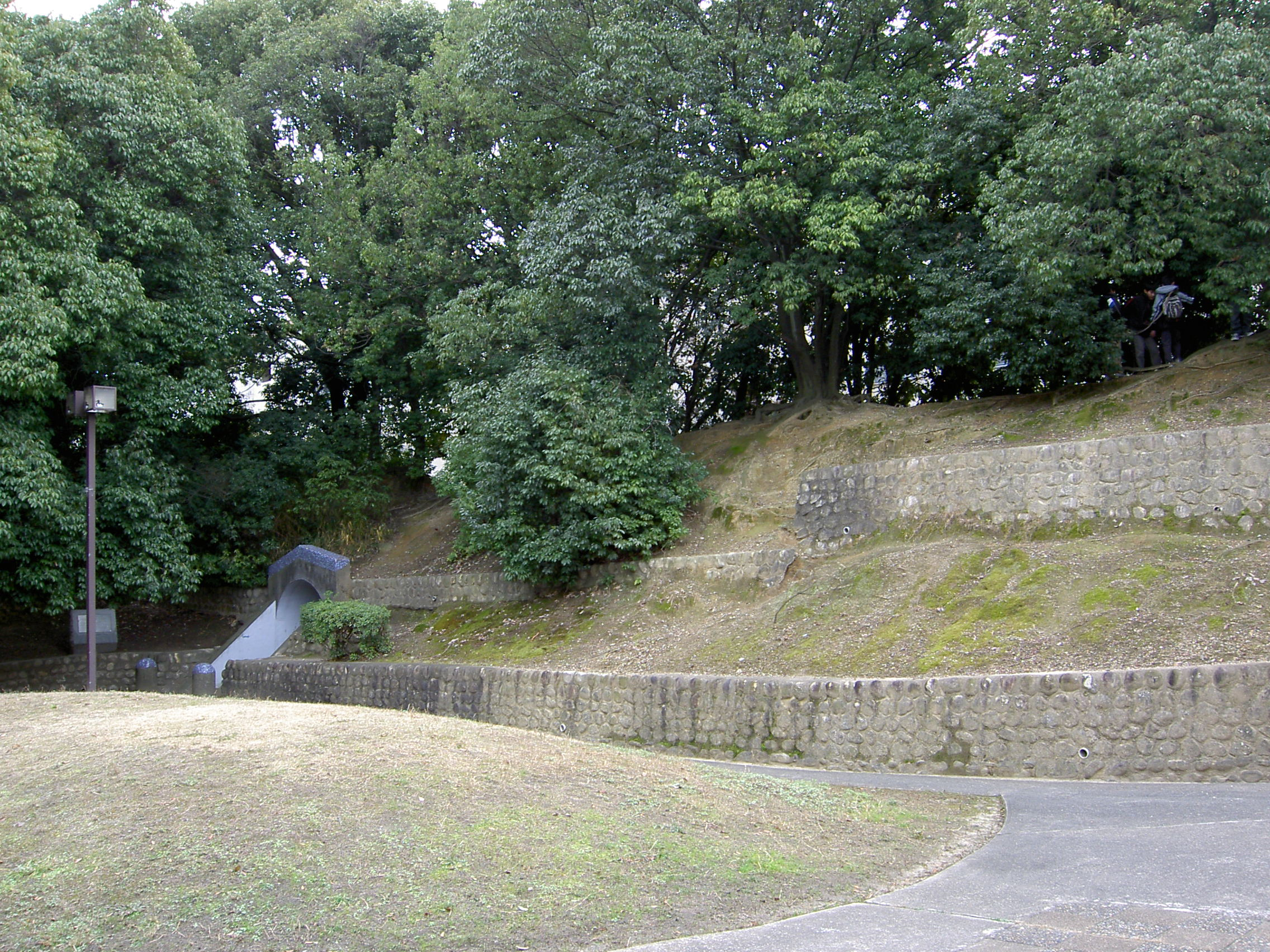 Earthwork in Kinya powder magazine site by Imperial Japanese Army. Hirakata-shi, Osaka Japan.